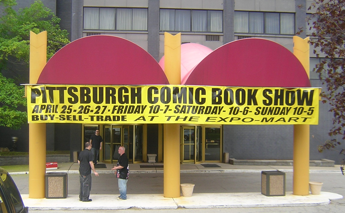 Entrance to the 2008 Pittsburgh Comicon in Monroeville, Pennsylvania. Since we're all too hungover, sleep deprived, and full of greasy foodstuffs to do anything but shuffle and point at things while grunting, we're at last in "The Comicon Zone", the ultimate state to simultaneously rejoice in the geekdom while immunizing yourself to the smell. That rumor about the lack of showering? Indeed. Even people besides us.